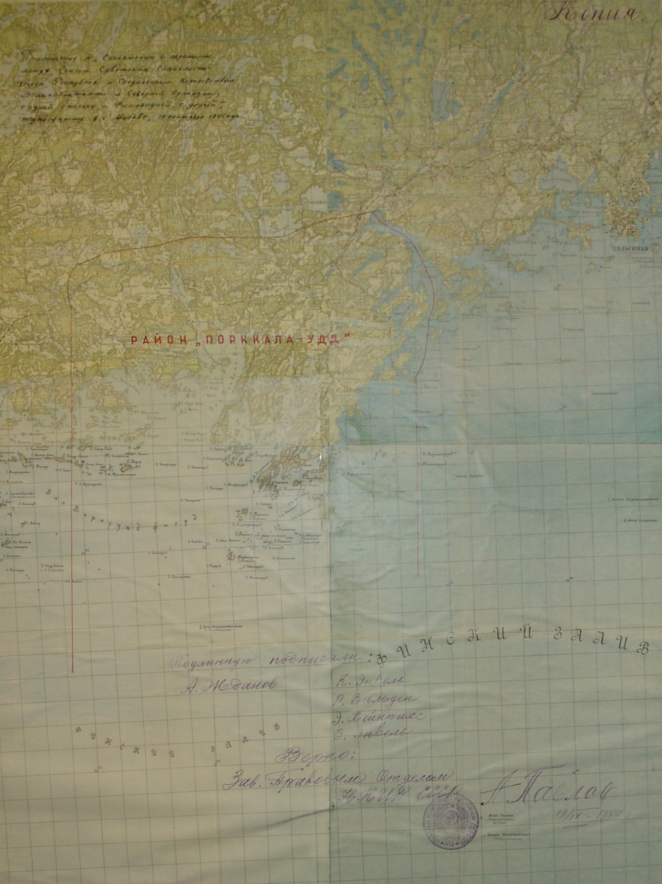 19 September 1944 the Moscow Armistice Agreement, attached to the map Porkkala limits of the territory. The map signatures: A. Shdanov, C. Enckell, R. Walden, E. Heinrichs and O. Enckell. Photo by Ohto Kokko